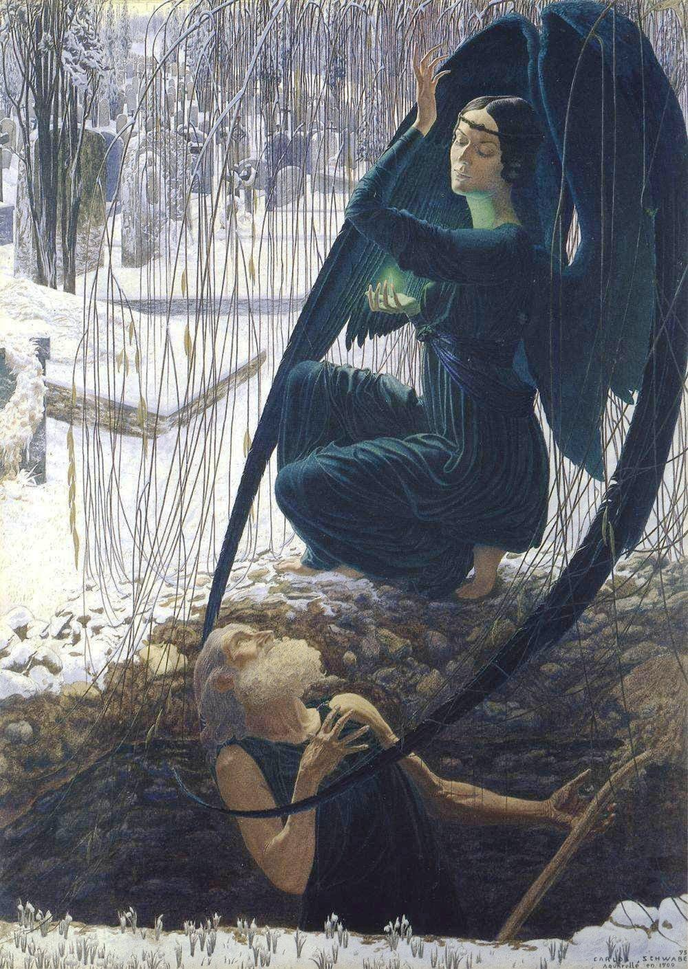 Altona (Germany)